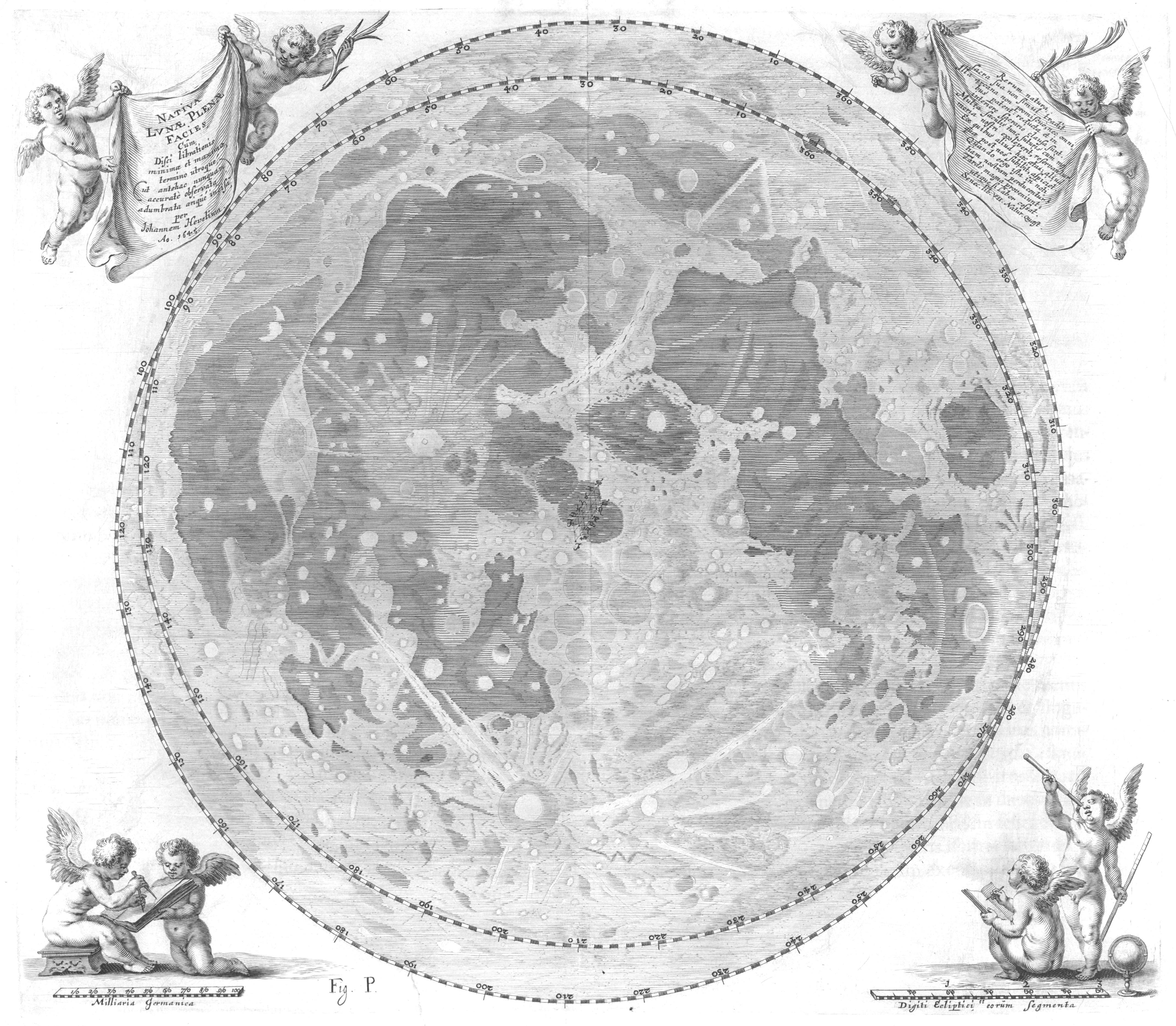 Map of the moon from the Selenographia, sive Lunae descriptio